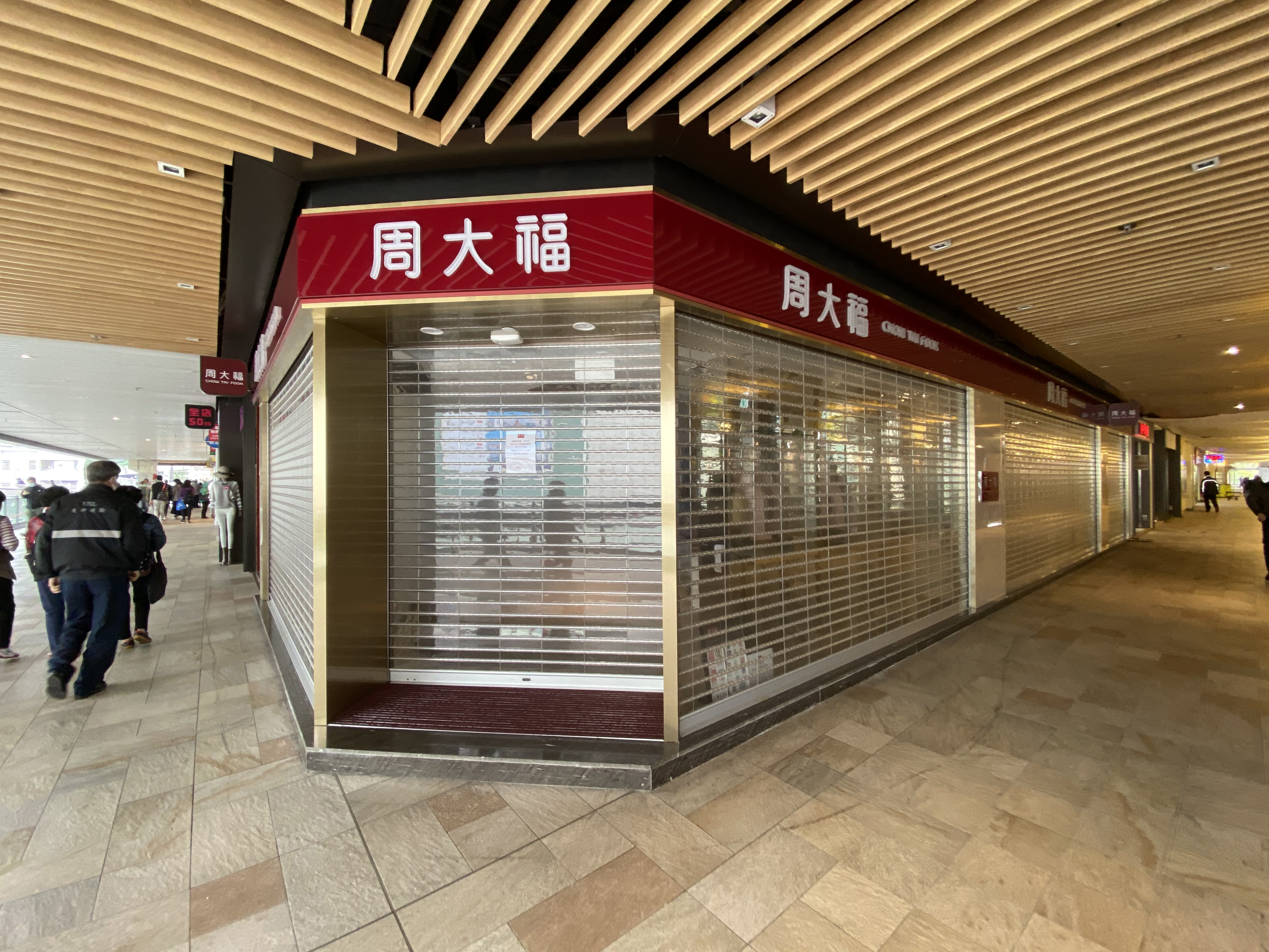 CTF Shatin Centre store Closed